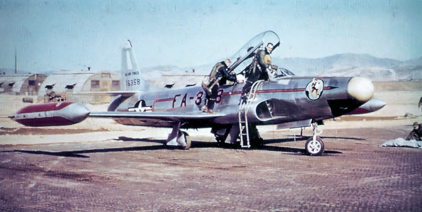 68th Fighter-Interceptor Squadron Lockheed F-94B-5-LO 51-5358 5358 (6160th ABW, 68th FIS) went belly into the sea after engine fire Dec 20, 1952. Both crew killed. Submerged in salt water for 95 hours. Aircraft SOC.